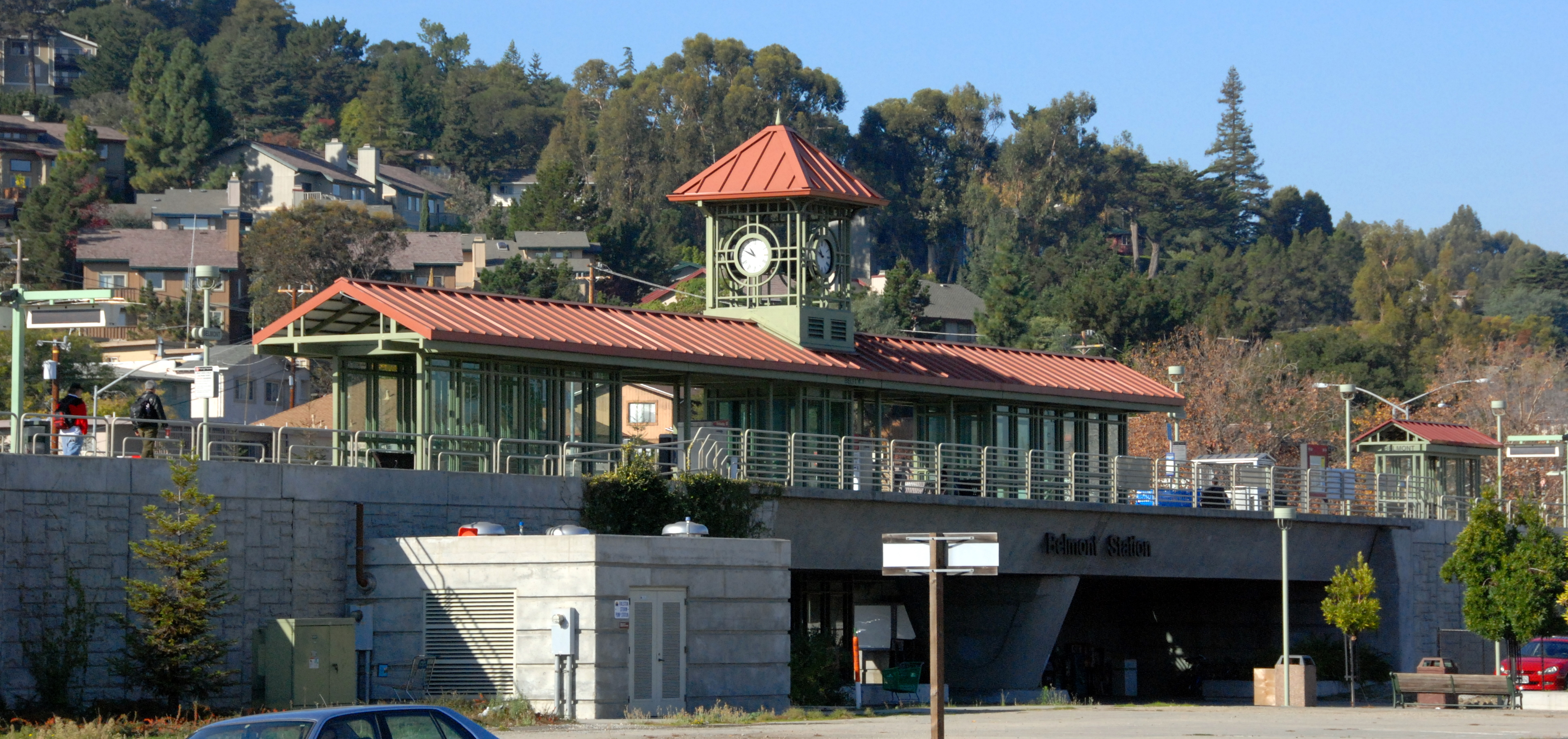 Caltrain station in Belmont, California, USA, year 2007